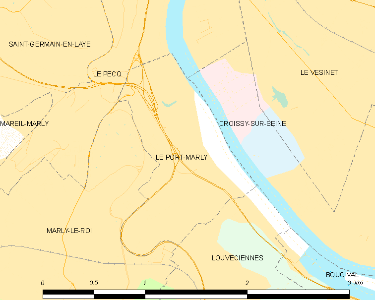 Map of French municipality Le Port-Marly